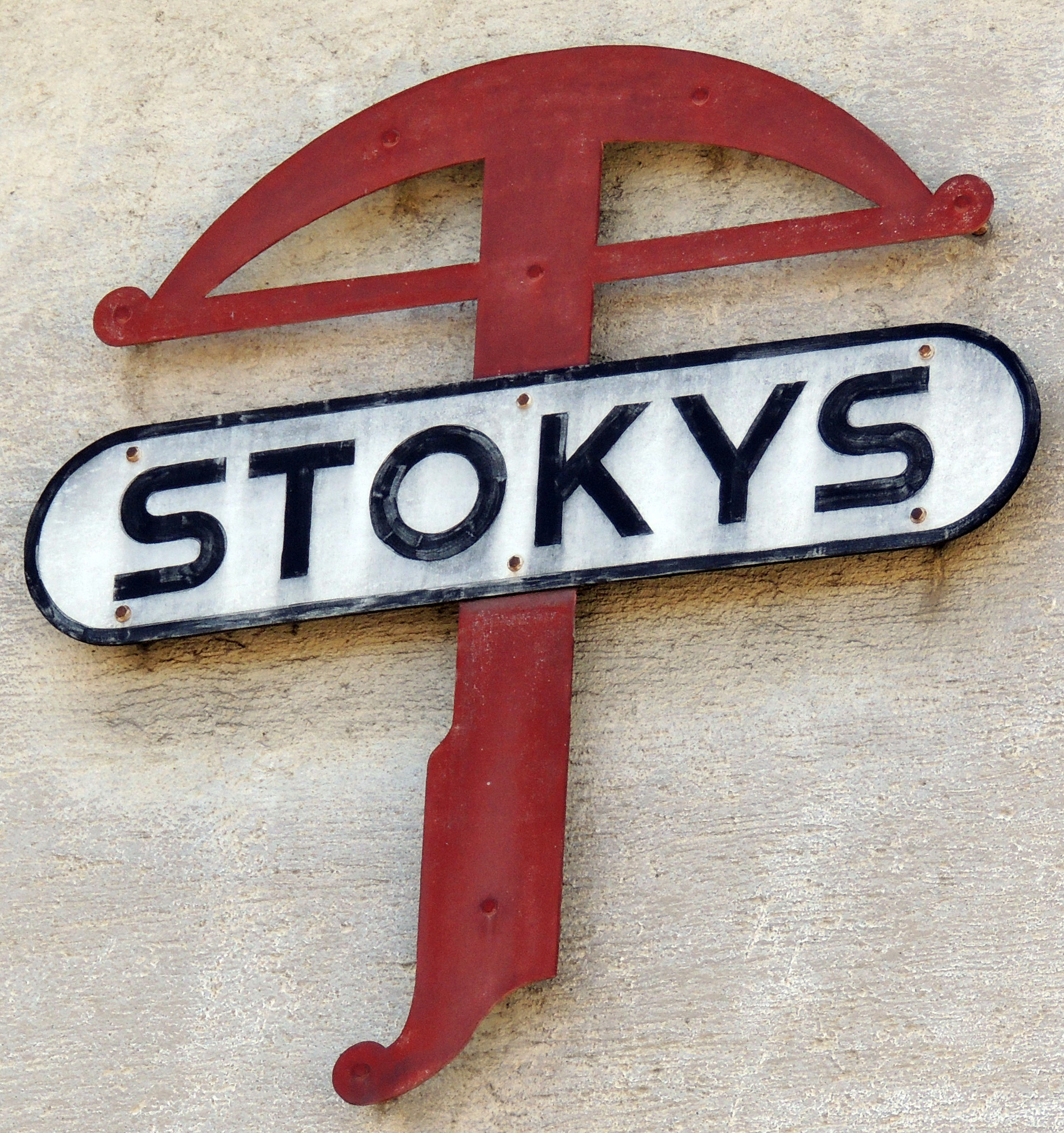 Stokys Logo at the building in Lucerne